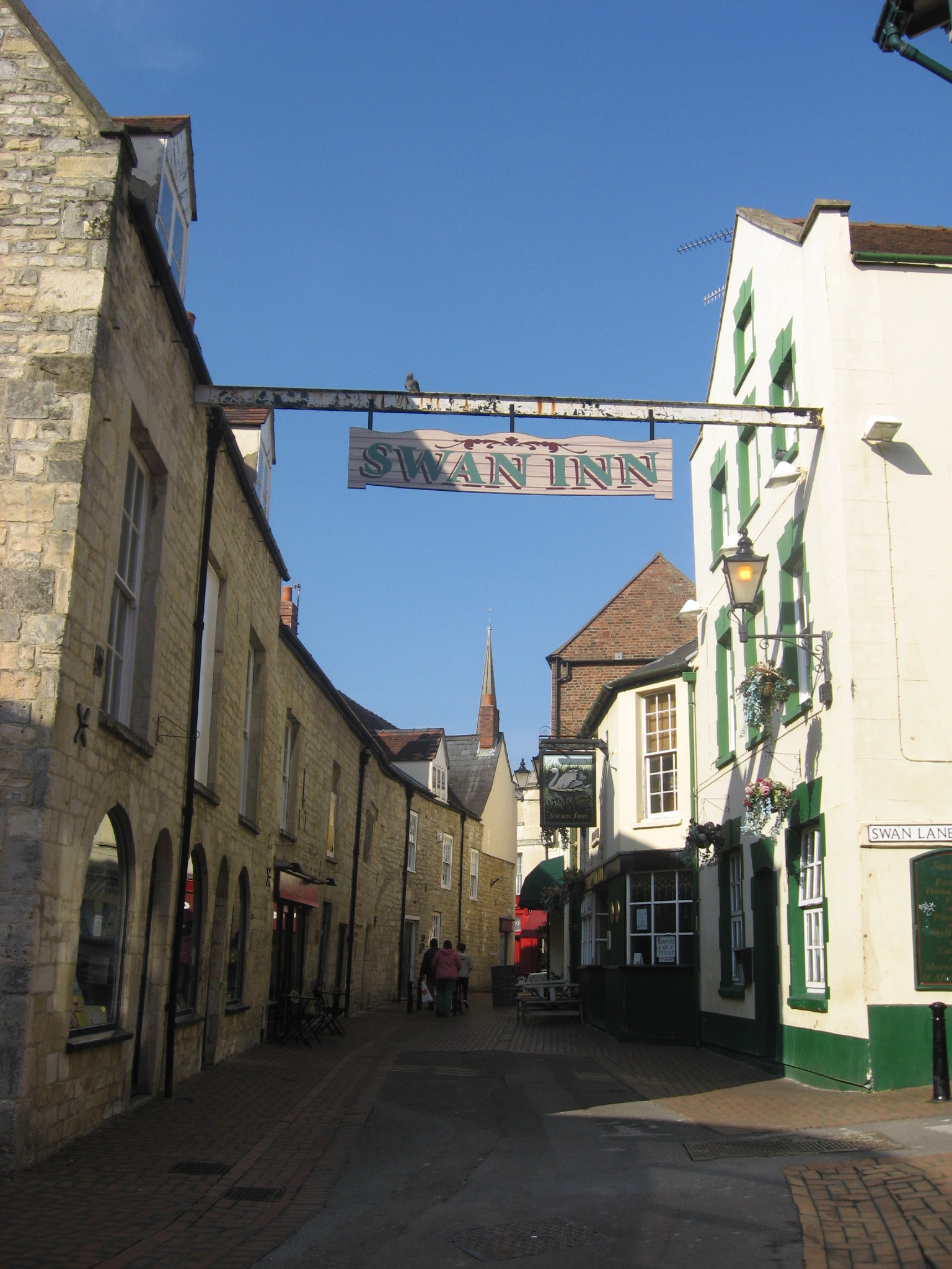 Swan Inn, Stroud, Gloucestershire